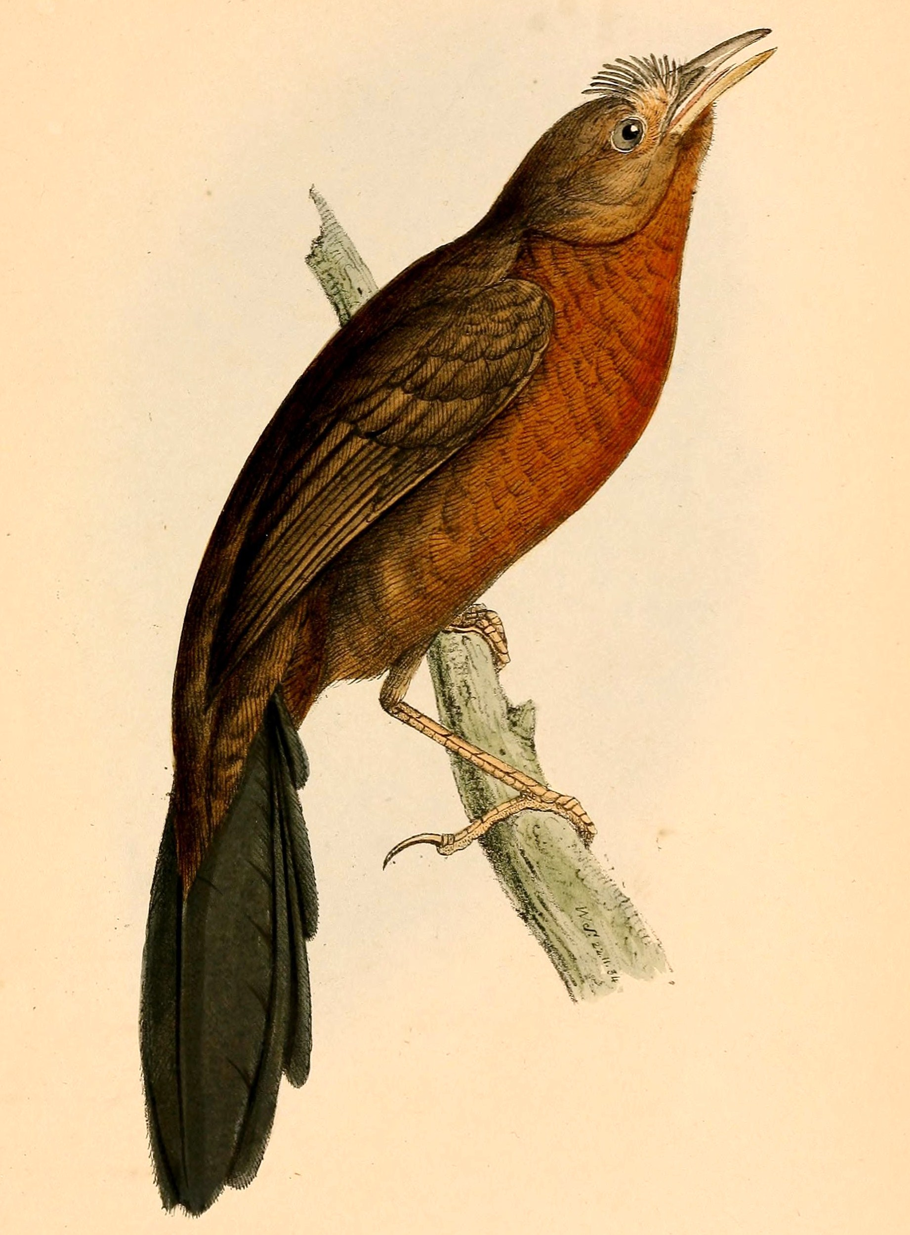 Platyurus corniculatus = Merulaxis ater (Slaty Bristlefront)